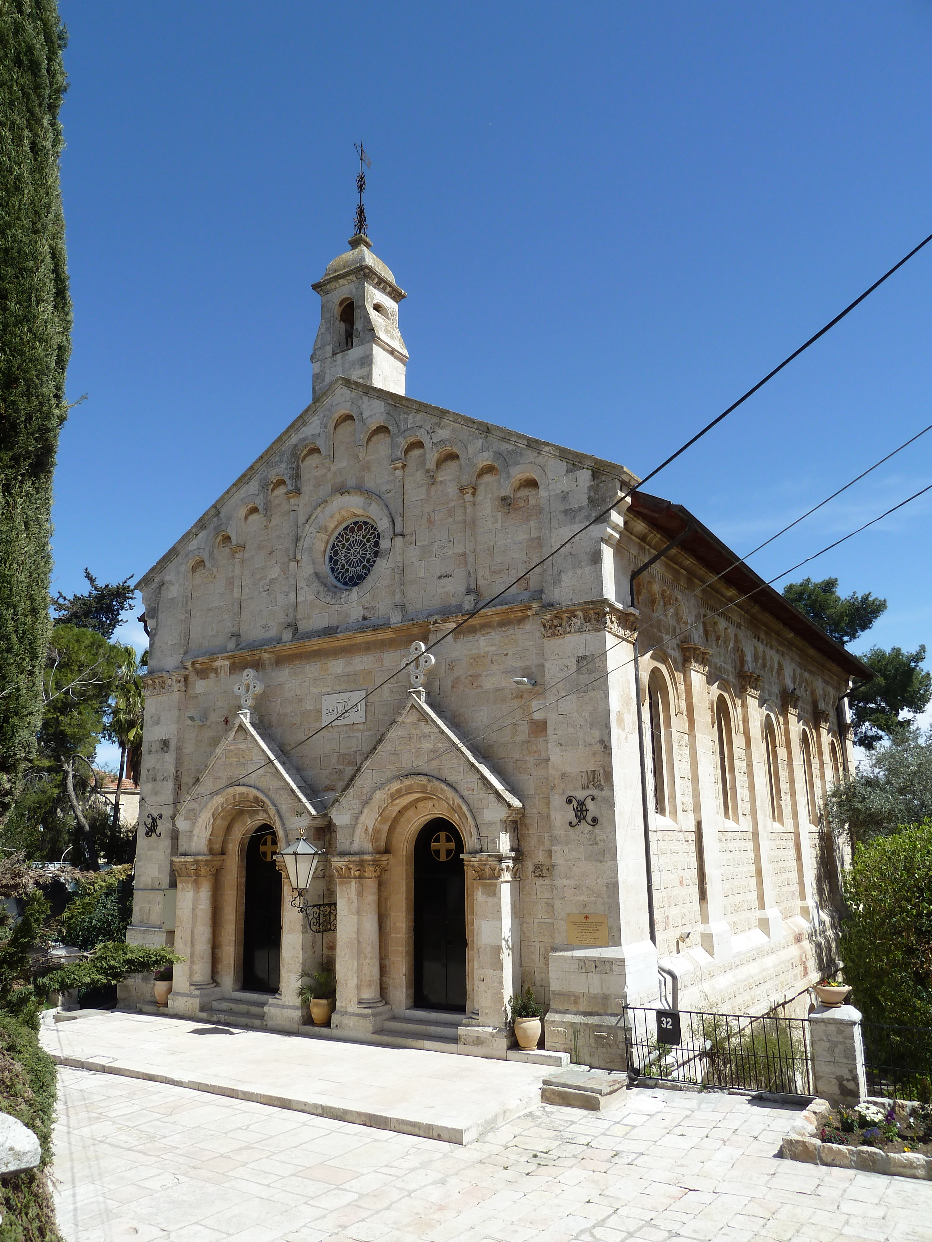 St. Paul Church, Musrara, Jerusalem